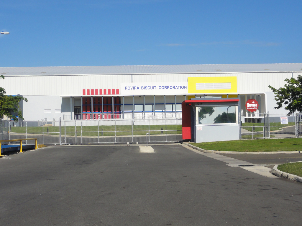 Entrada principal al nuevo edificio de Rovira Biscuits Corporation en Barrio Sabanetas, Ponce, Puerto Rico